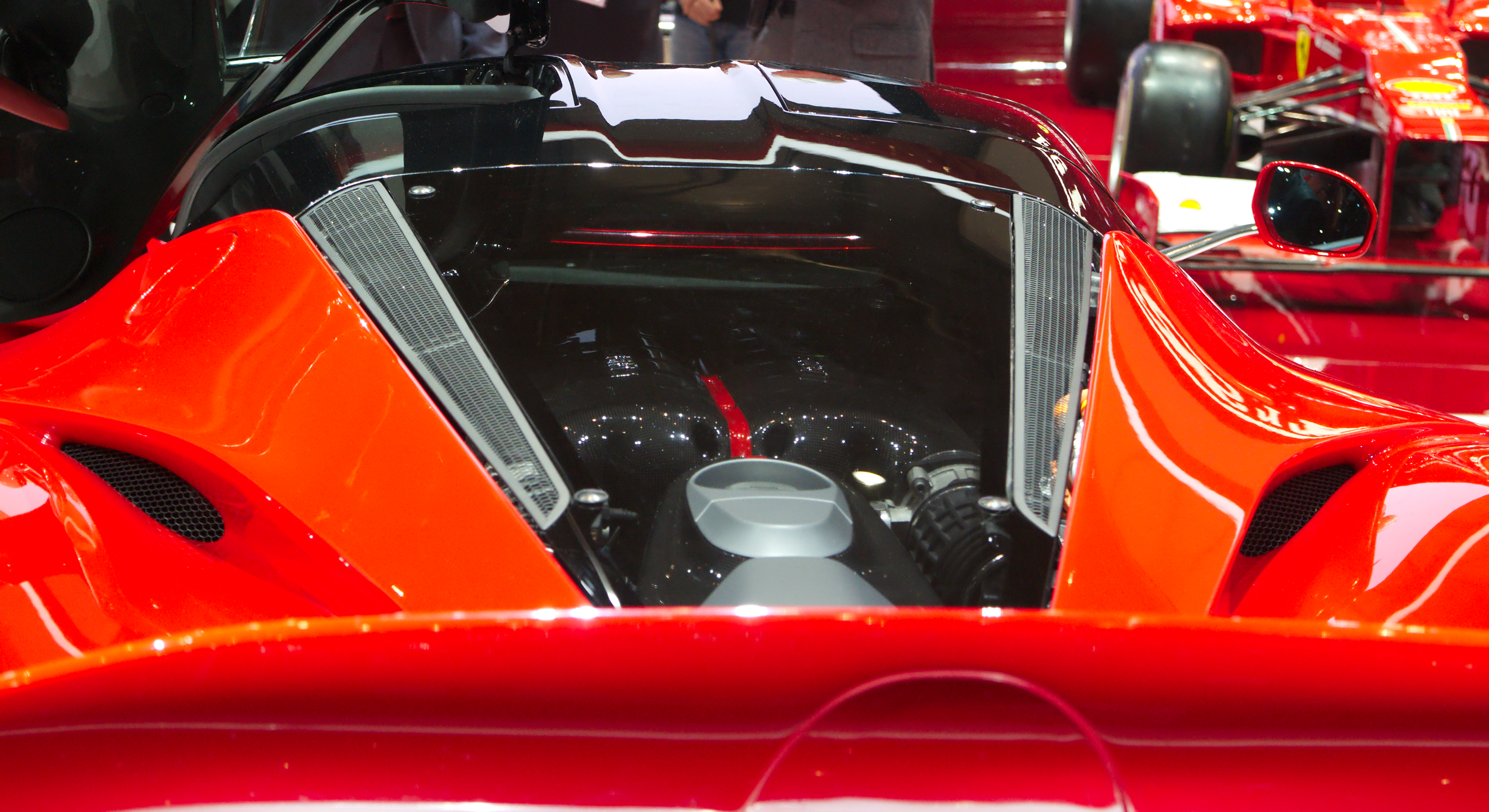 Geneva MotorShow 2013 - Ferrari LaFerrari engine